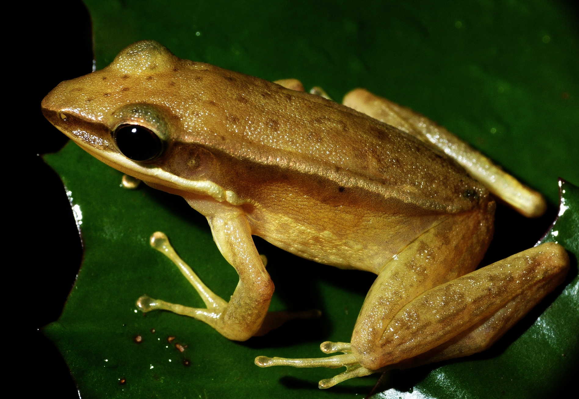 Indosylvirana intermedius (identified by K.V. Gururaja on 6 October 2015), Wayanad, India